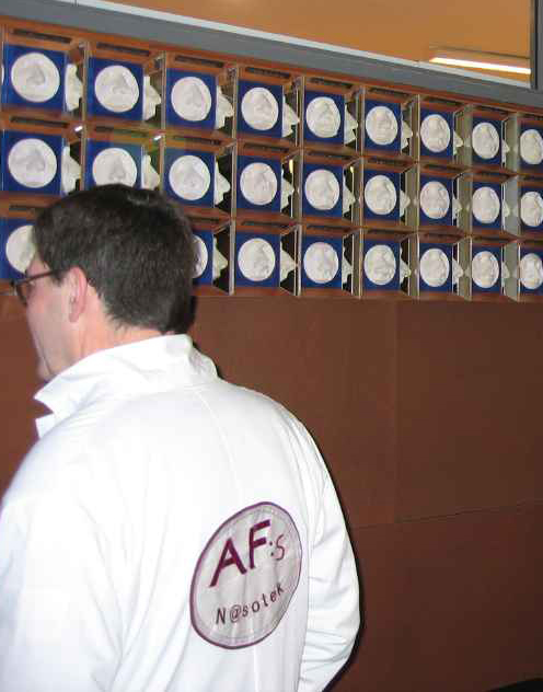 Lund University's collection of plaster casts of noses displayed in its Museum of Student Life